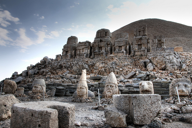 This is a view of the remains of the massive temple erected by King Antiochus I of Commagene